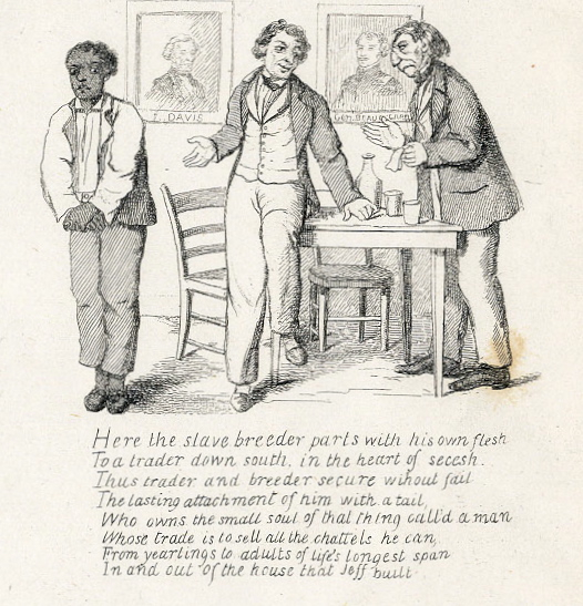 Panel from 1863 cartoon "The House That Jeff Built" by David Claypoole Johnston, satirizing Jefferson Davis, slavery, and the Confederacy. Panel 8. "Here the slave breeder parts with his own flesh to a trader down south, in the heart of secesh, thus trader and breeder secure without fail, the lasting attachment of him with a tail, who owns the small soul of that thing call’d a man, whose trade is to sell all the chattels he can, from yearlings to adult’s of life’s longest span, in and out of the house that Jeff built." Cartoon shows slaver selling his own son by a slave mother. In background hang portraits of Jefferson Davis and P.G.T. Beauregard.